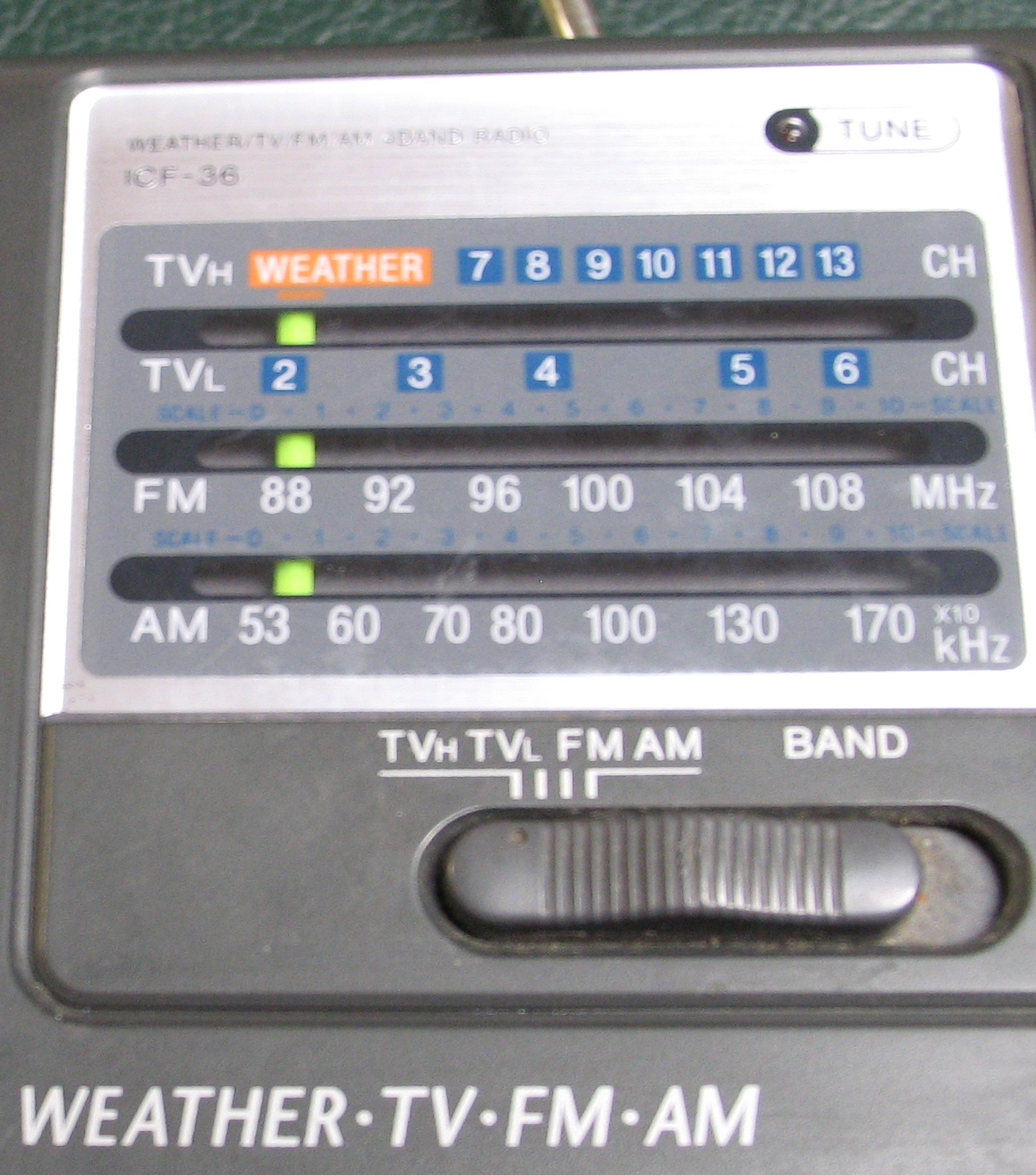 Sony ICF-36 portable radio - tuner bands - weather tv fm am Manufactured in 2001 The analog TV audio reception bands are obsolete and unusable in the United States, following the conversion to Digital TV.